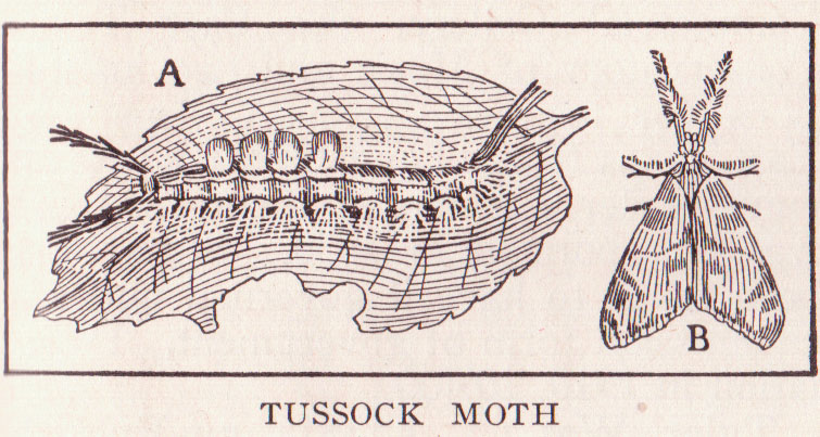 This copyright free illustration of a Tussock moth in the caterpillar and adult stage is from page 2947. From the public domain book, The Home and School Reference Work by The Home and School Education Society, copyright 1917. Flickr data on 2011-08-18: Tags: 1917, birds, book, copyright free, creative commons, drawings, flickr, free License: CC BY 2.0 User: perpetualplum Sue Clark